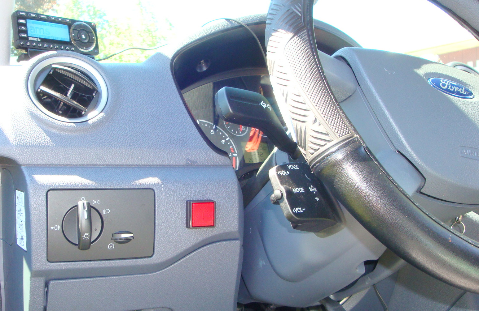 Ford Transit Connect cab van interior with HTS Ultra-Rack LED dash release switch. HTS Systems' IDEC 12VDC momentary dash release switch unlocks hand truck and warns driver if the HTS is not properly locked before departure.